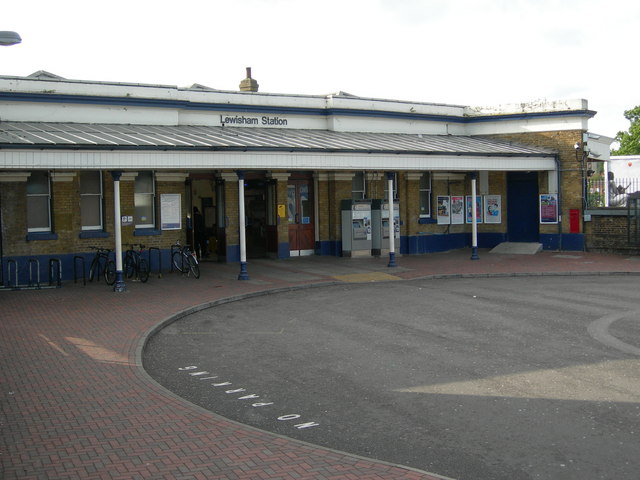 Lewisham Station original canopy over main entrance subsequently demolished and replaced with unattractive steel version.